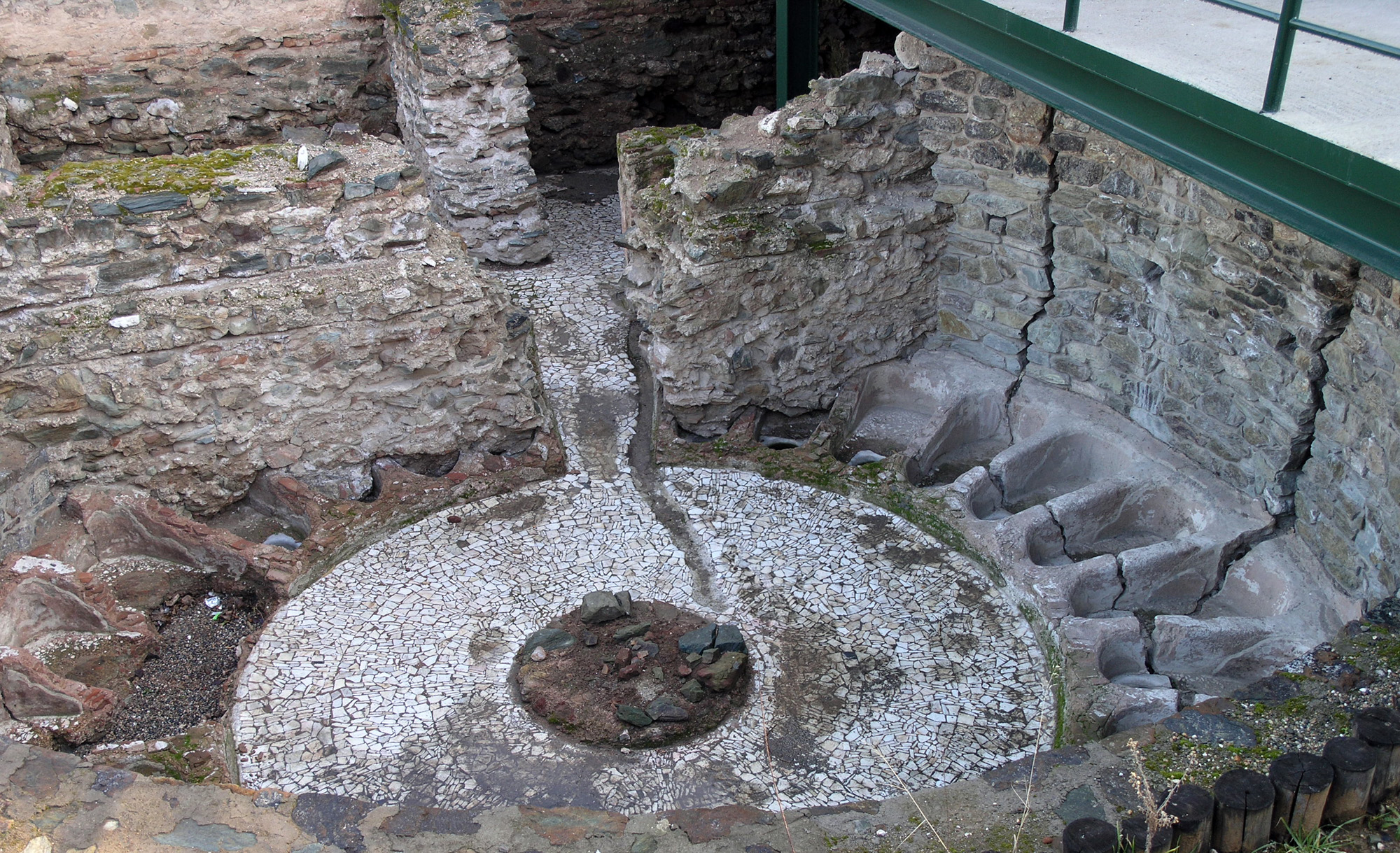 Pyriaterion/laconicum of the Hellenistic Baths in the south-east corner of the ancient agora in Thessaloniki. Destroyed in 78 AD. Photograph taken by Marsyas 09:35, 27 February 2006 (UTC)